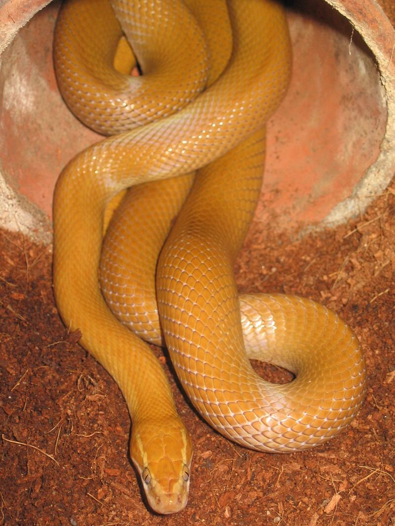 African house snake; male